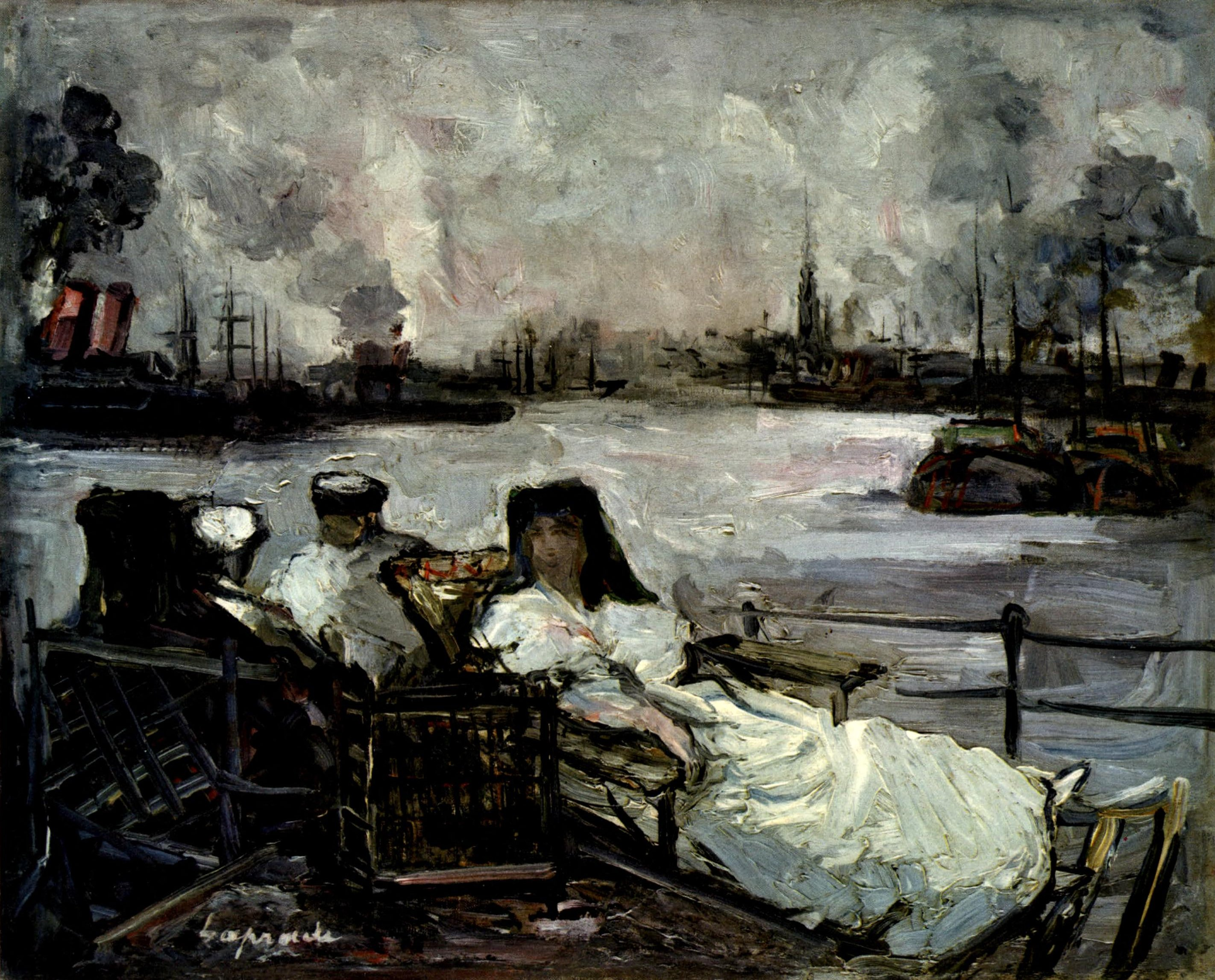 circa 1900